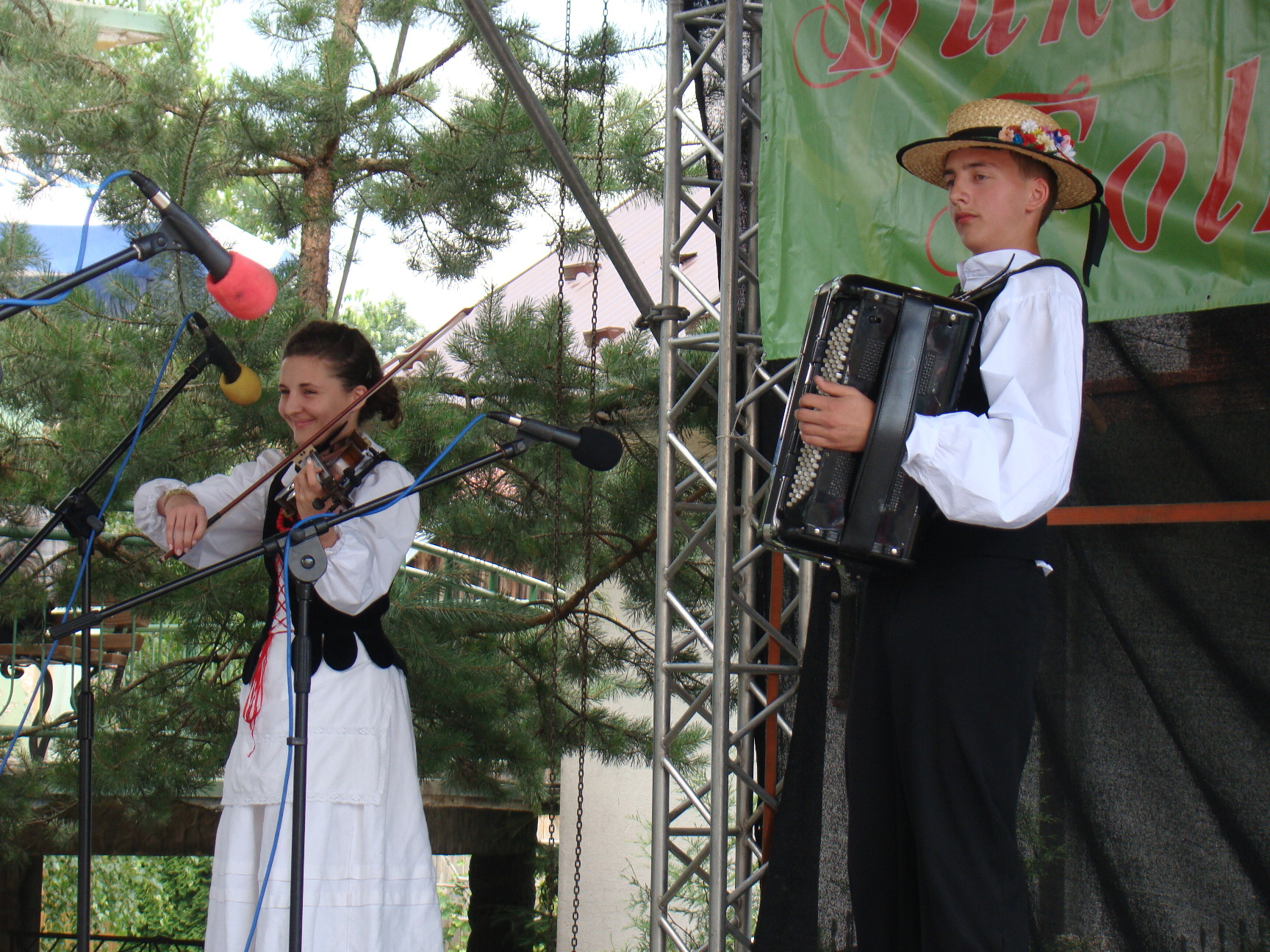 Folk festival in Bukowsko.